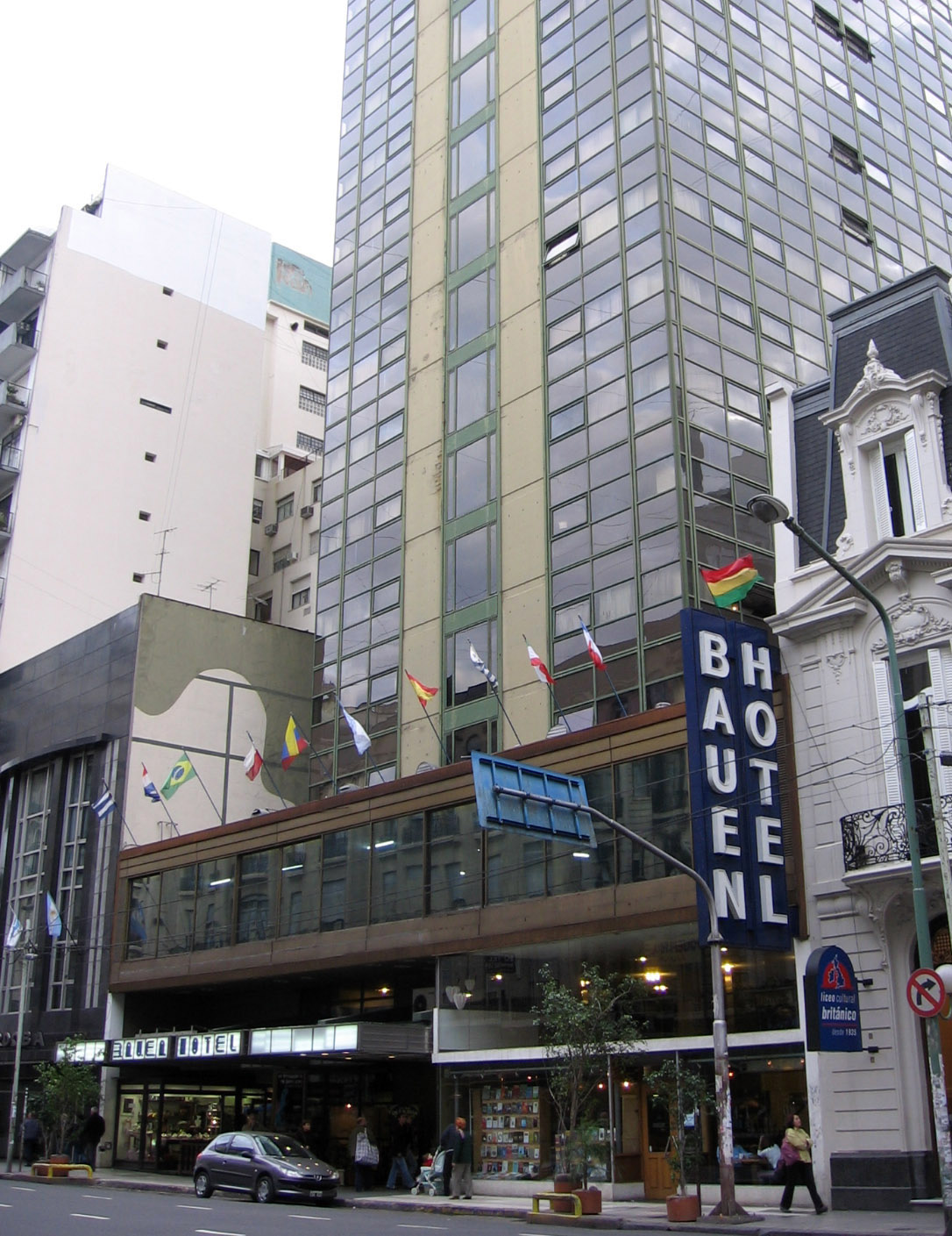 The Hotel Bauen, a prominent worker-run "recovered enterprise" in Buenos Aires.